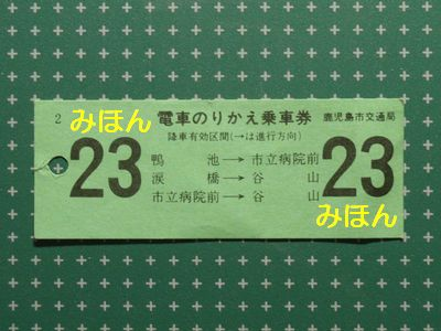 Transit ticket of Kagoshima City Tram